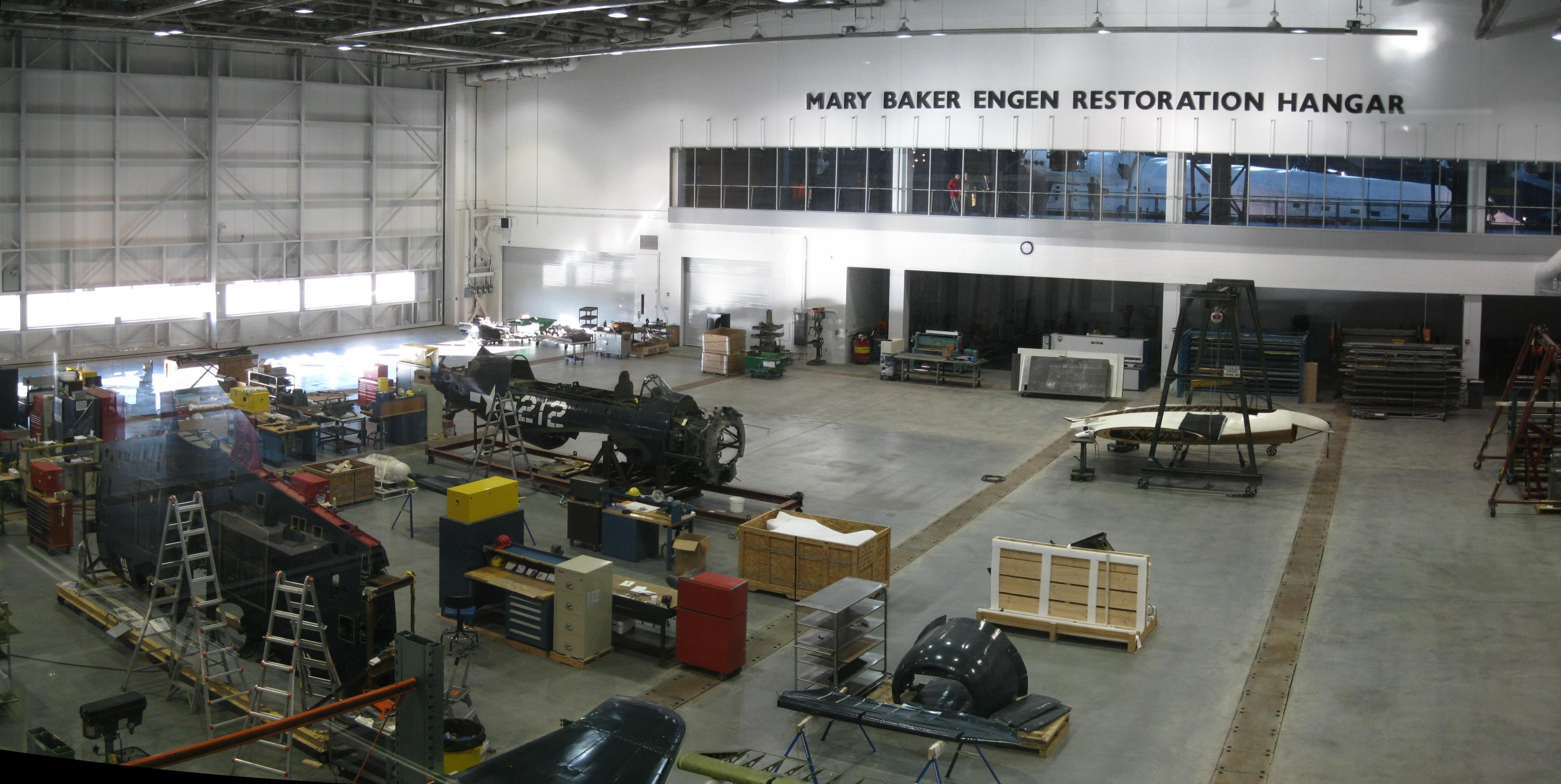 Mary Baker Engen Restoration Hangar at the Smithsonian Institution's National Air and Space Museum's Steven F. Udvar-Hazy Center near Washington DC. Space Shuttle Discovery can be seen through the windows in the background.